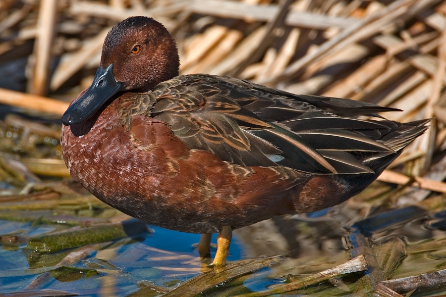 Anas cyanoptera - Cinnamon Teal, Birding Center, Port Aransas, Texas